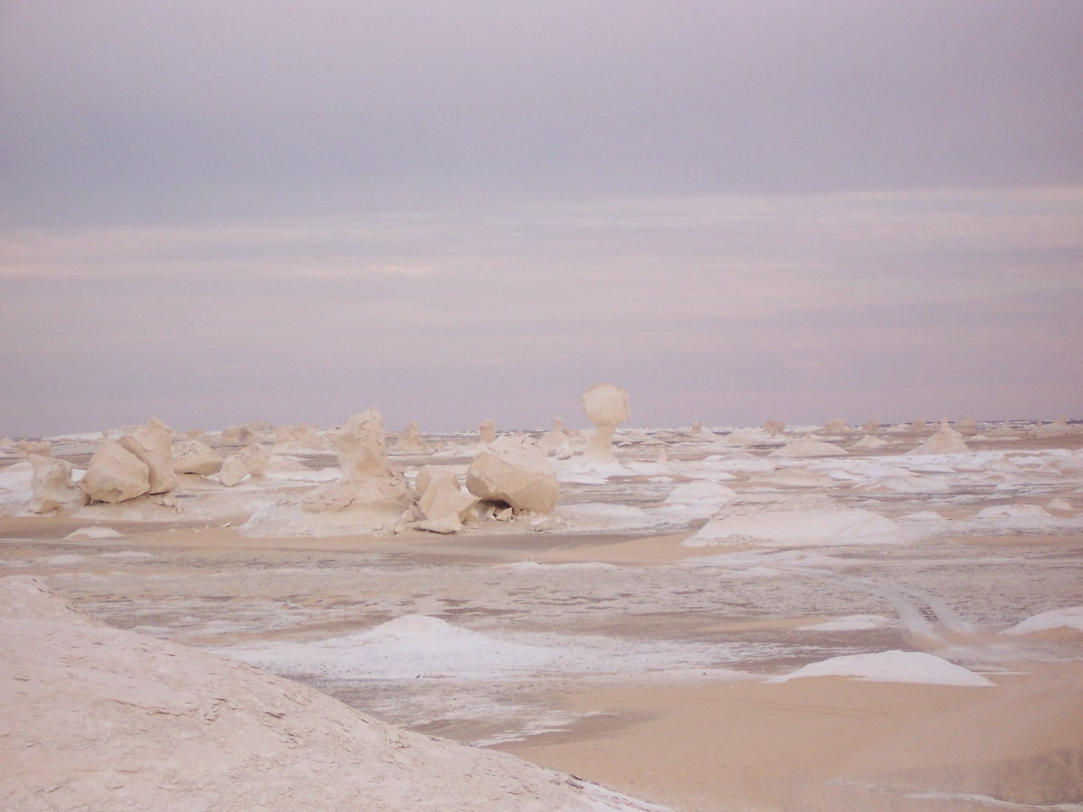 Mushroom rock formations at the White Desert near Farafra, Egypt